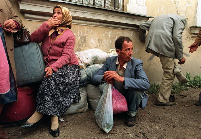 Refugees arrive in Travnik, during the war in Bosnia and Herzegovina, 1993.